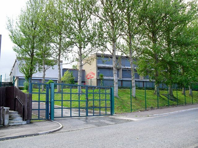 Holy Cross Girls Primary School, Ardoyne When this school was built - the Ardoyne was a mixed (Protestant and R.C.) area. When The Troubles started and both communities moved to opposite sides of the neighbourhood - this Catholic school was left on the wrong side. Unfortunately, in June 2001 tensions flared when local loyalist began to harrass the school children and their parents while walking along the Protestant section of Ardoyne Road - eventually leading to the walk to school being undertaken between lines of riot police. The situation was eventually eased when children were permitted to enter via St Gabriel's College on the other side of the campus.